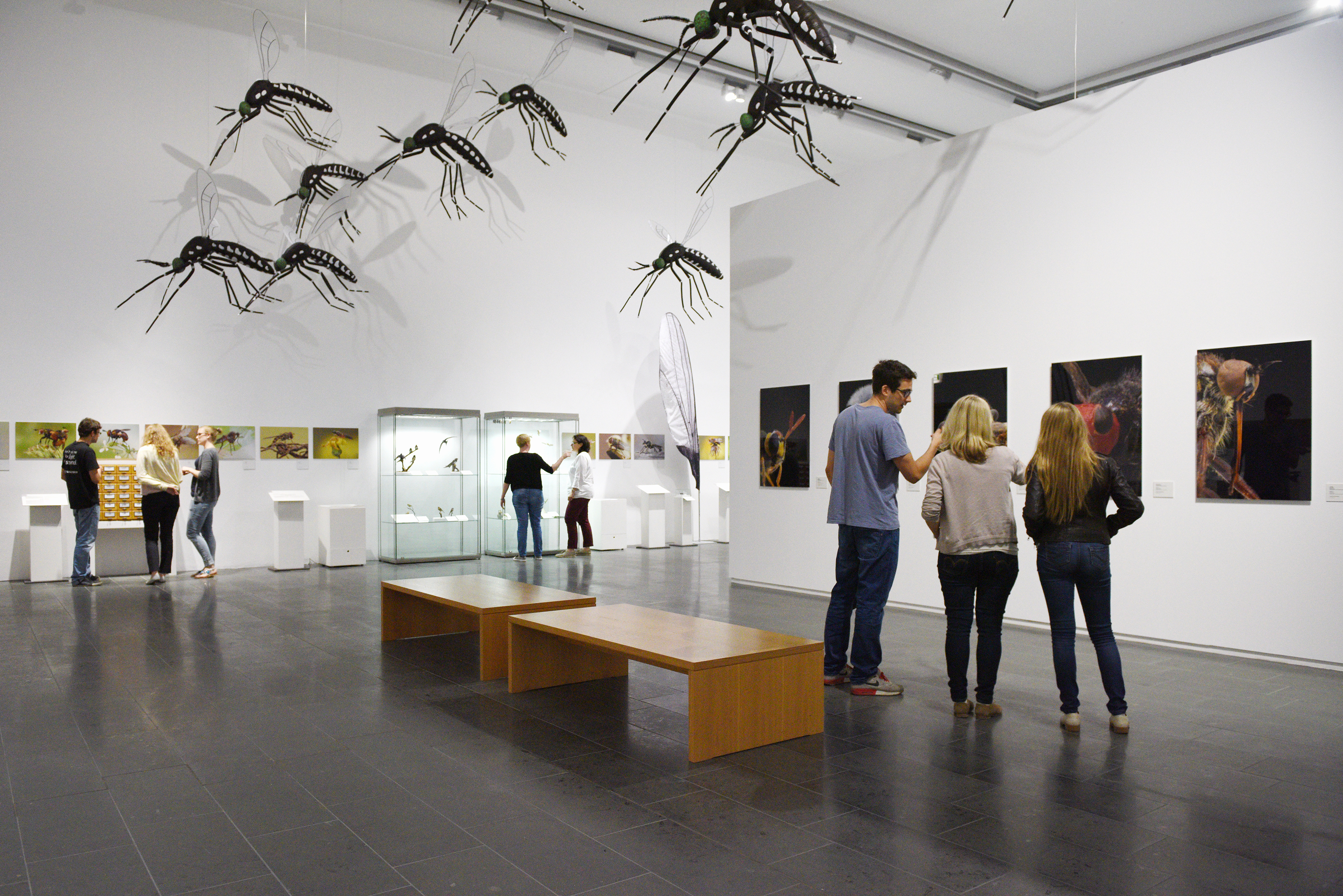 Flies– Location: Museum Wiesbaden